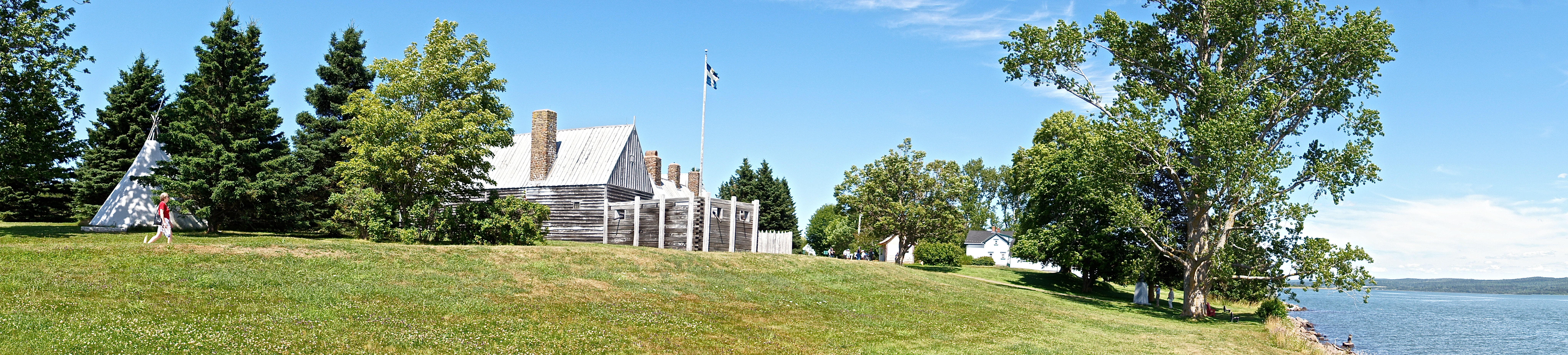 A panoramic view of Port Royal with the Annapolis Basin on the right.